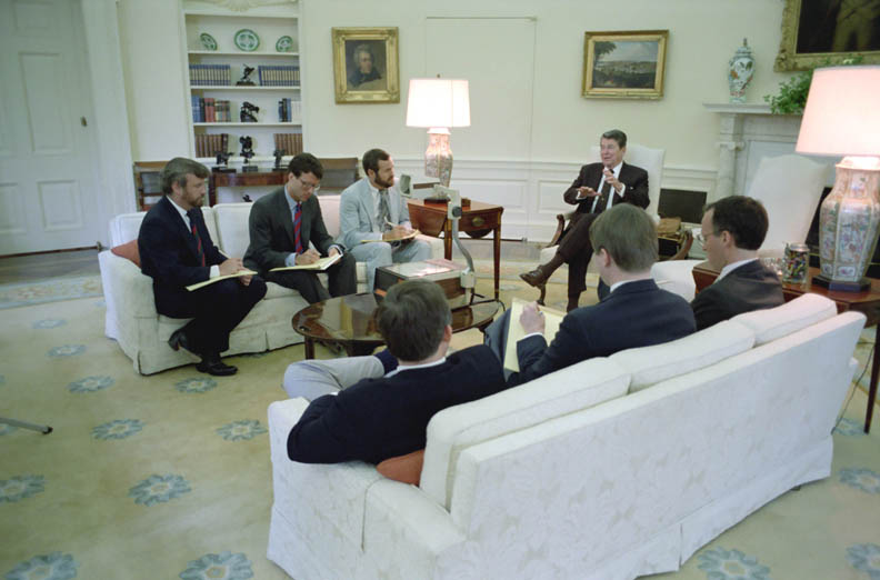 White House speechwriters meet with President Reagan in the Oval Office on May 18, 1987, to work on the Berlin Wall Speech. Anthony Dolan is first on the left on the far couch. Peter Robinson is second from the left.